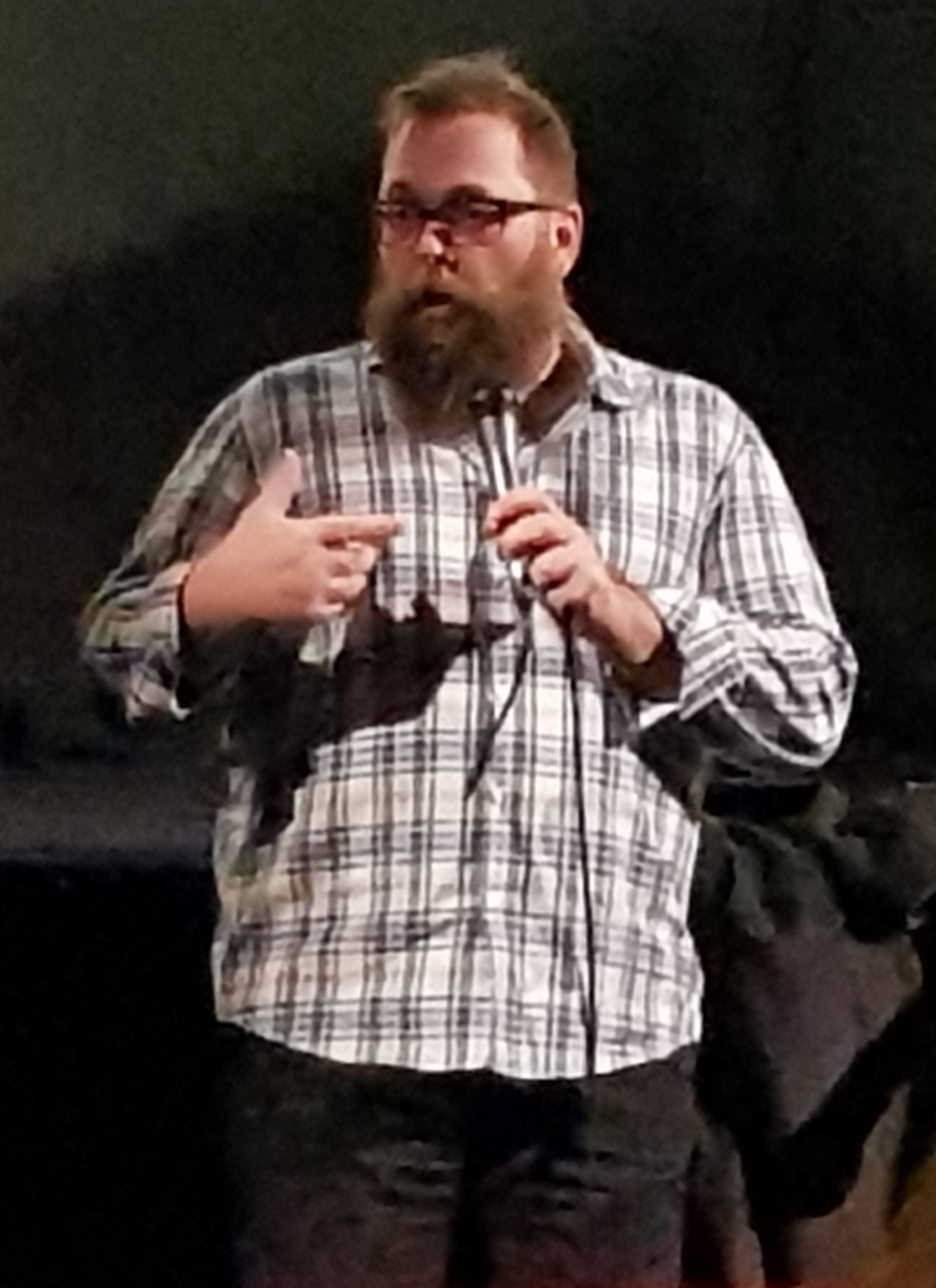 Robert Schwentke at "The Captain" Paris Premiere